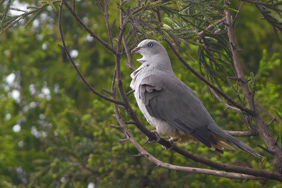 The species Mountain Imperial Pigeon had been photographed at Mahananda Wildlife Sanctuary in West Bengal, India on 09.05.2016.